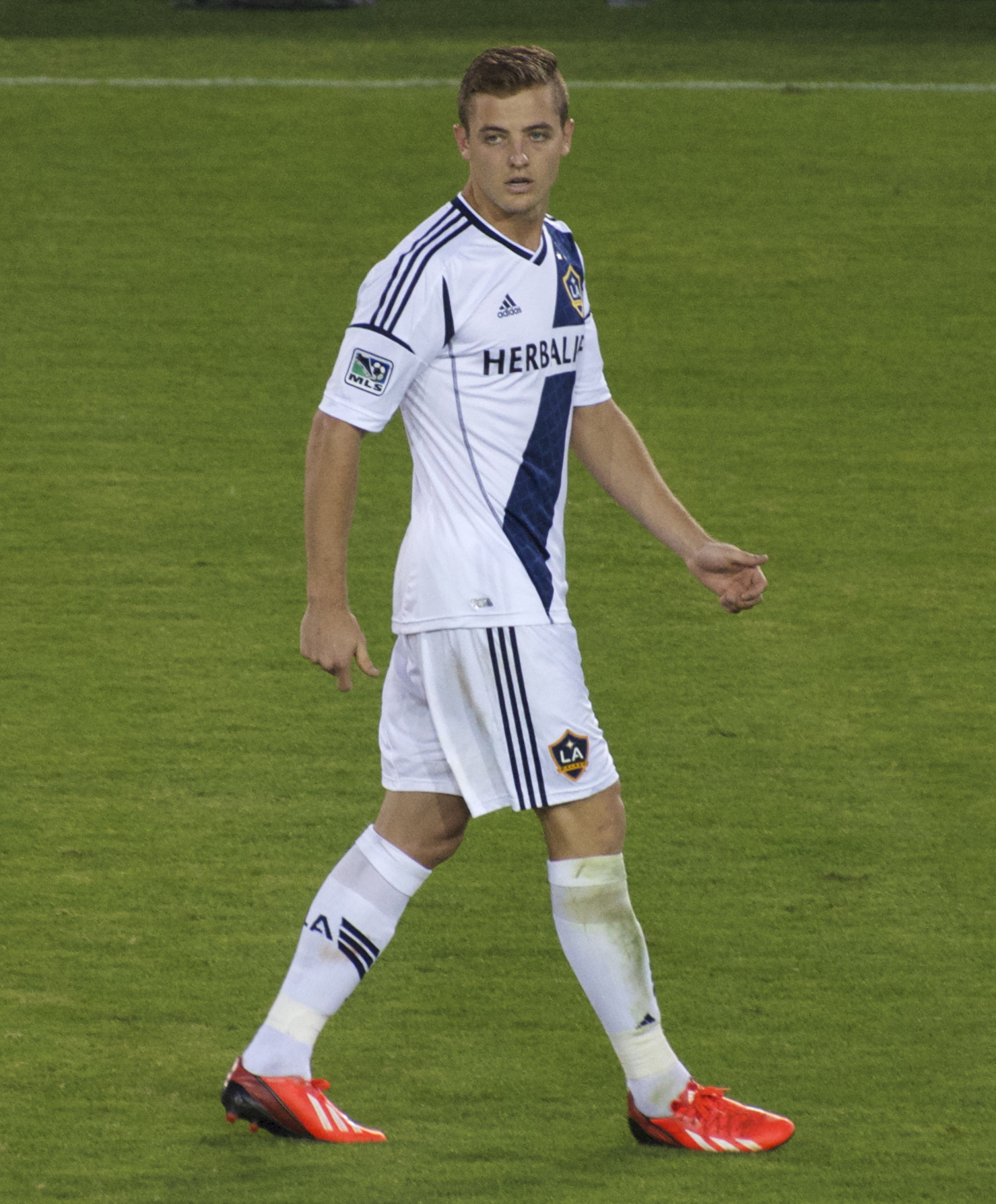 Robbie Rogers, Stanford Stadium, LA Galaxy vs SJ Earthquakes, Saturday 2013-06-29